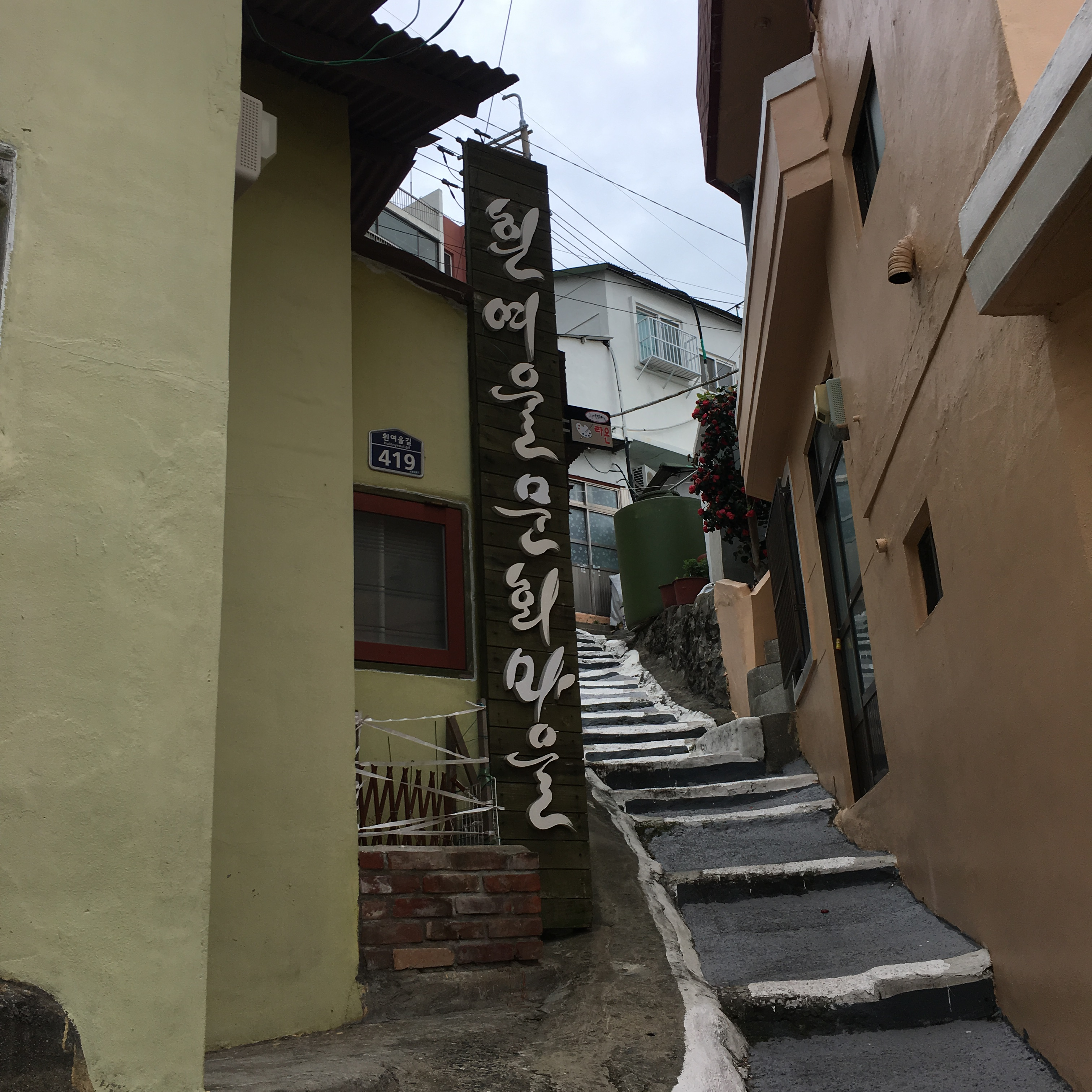 Stairs and sign of Huinnyeoul Culture Village